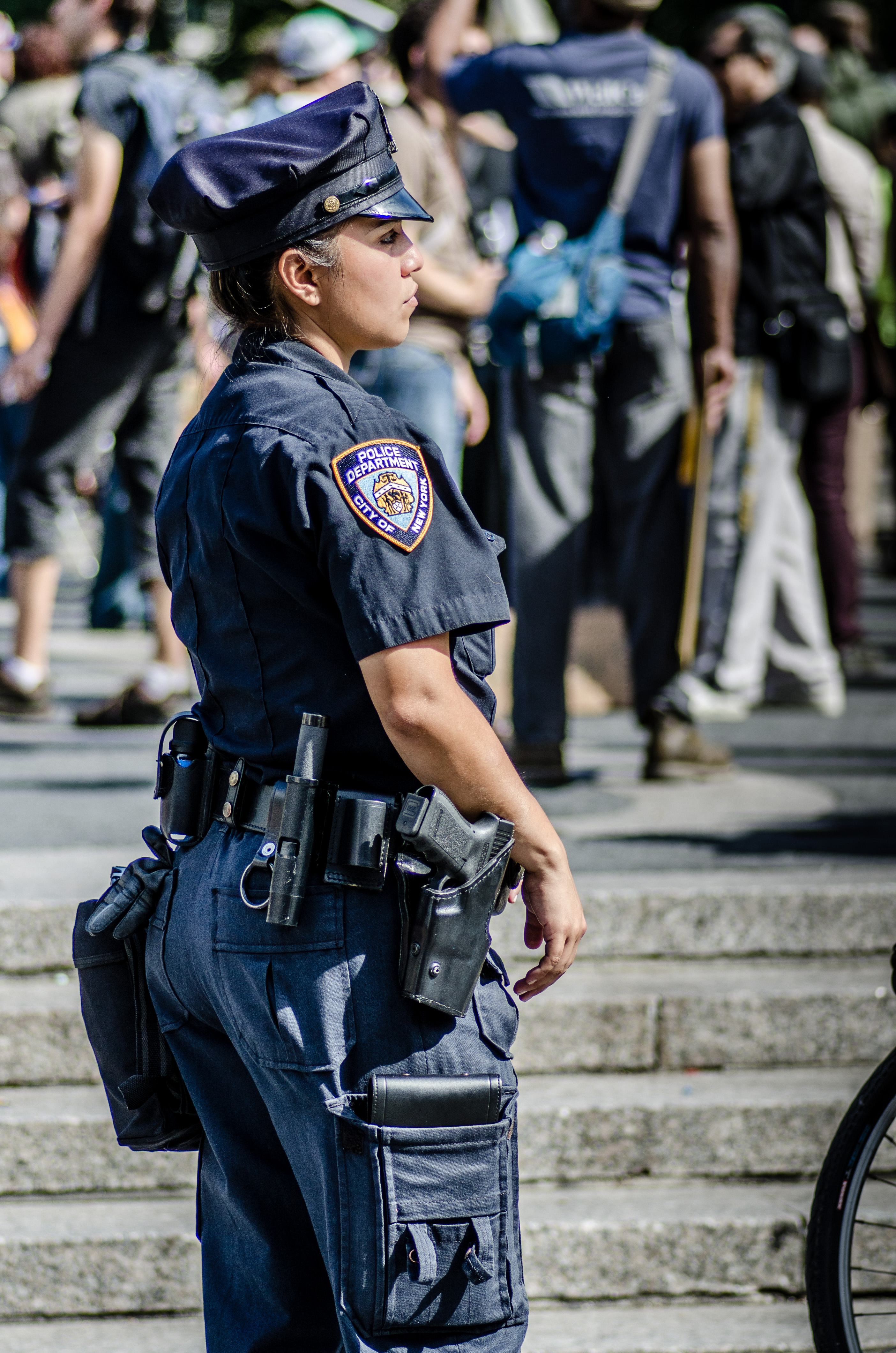 watching protesters in Union Square in NYC